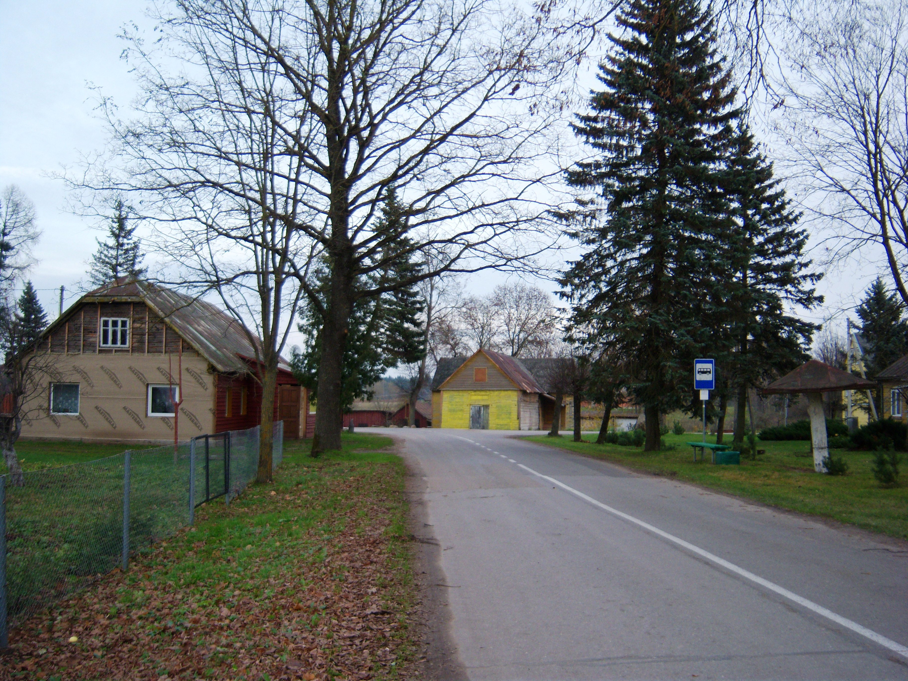 Krikliniai, Pasvalys District, Lithuania